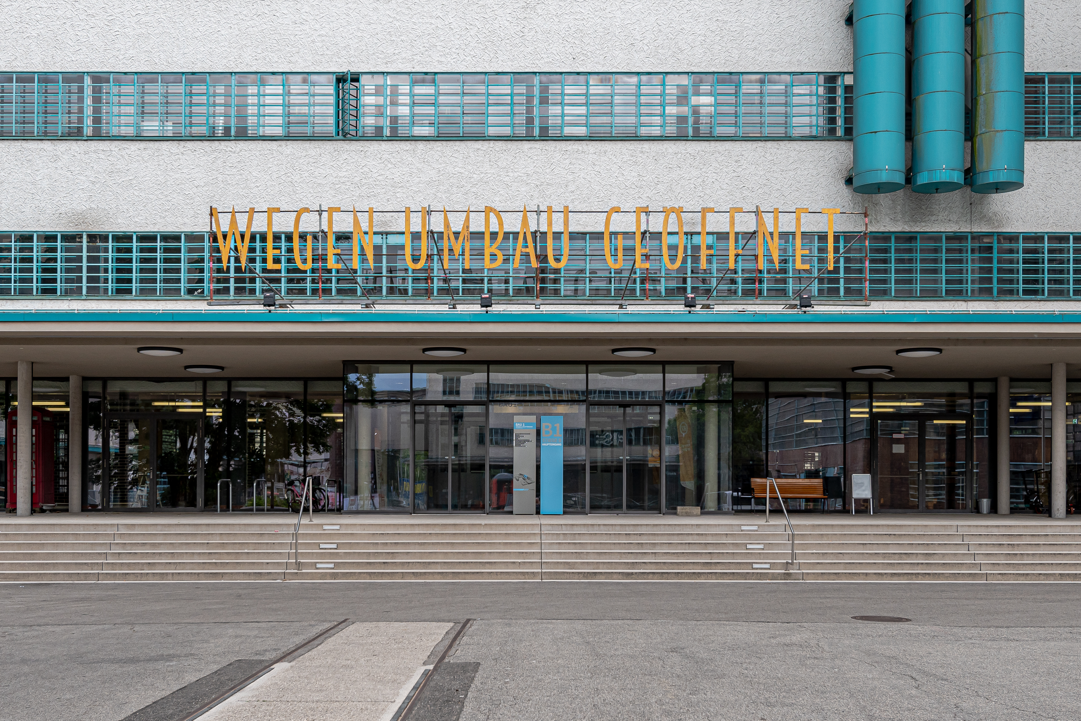 Entrance to former factory building of Tabakwerke Austria in Linz.